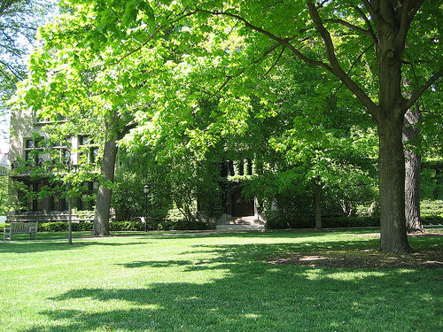 Some trees and stuff at the University of Chicago